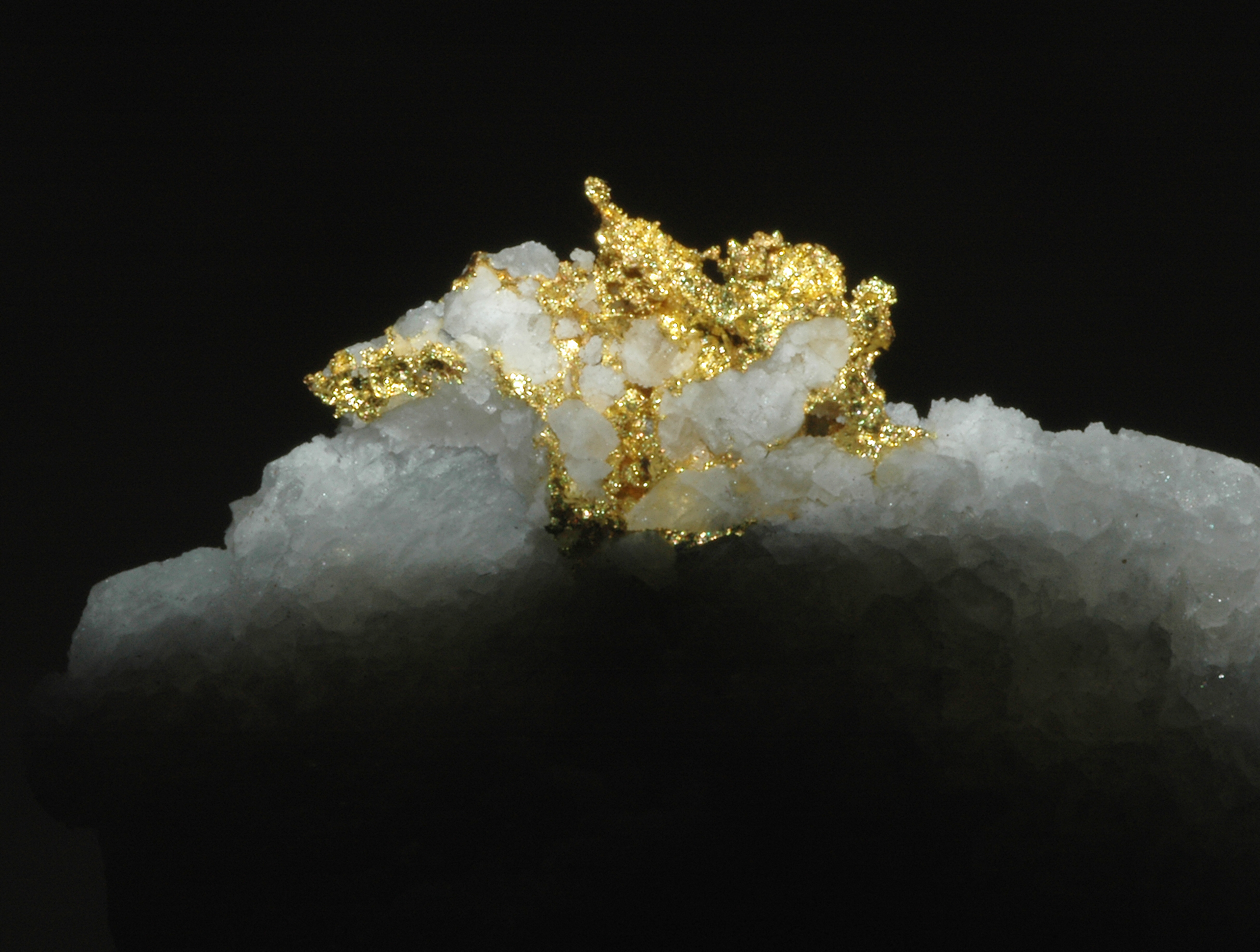 or natif